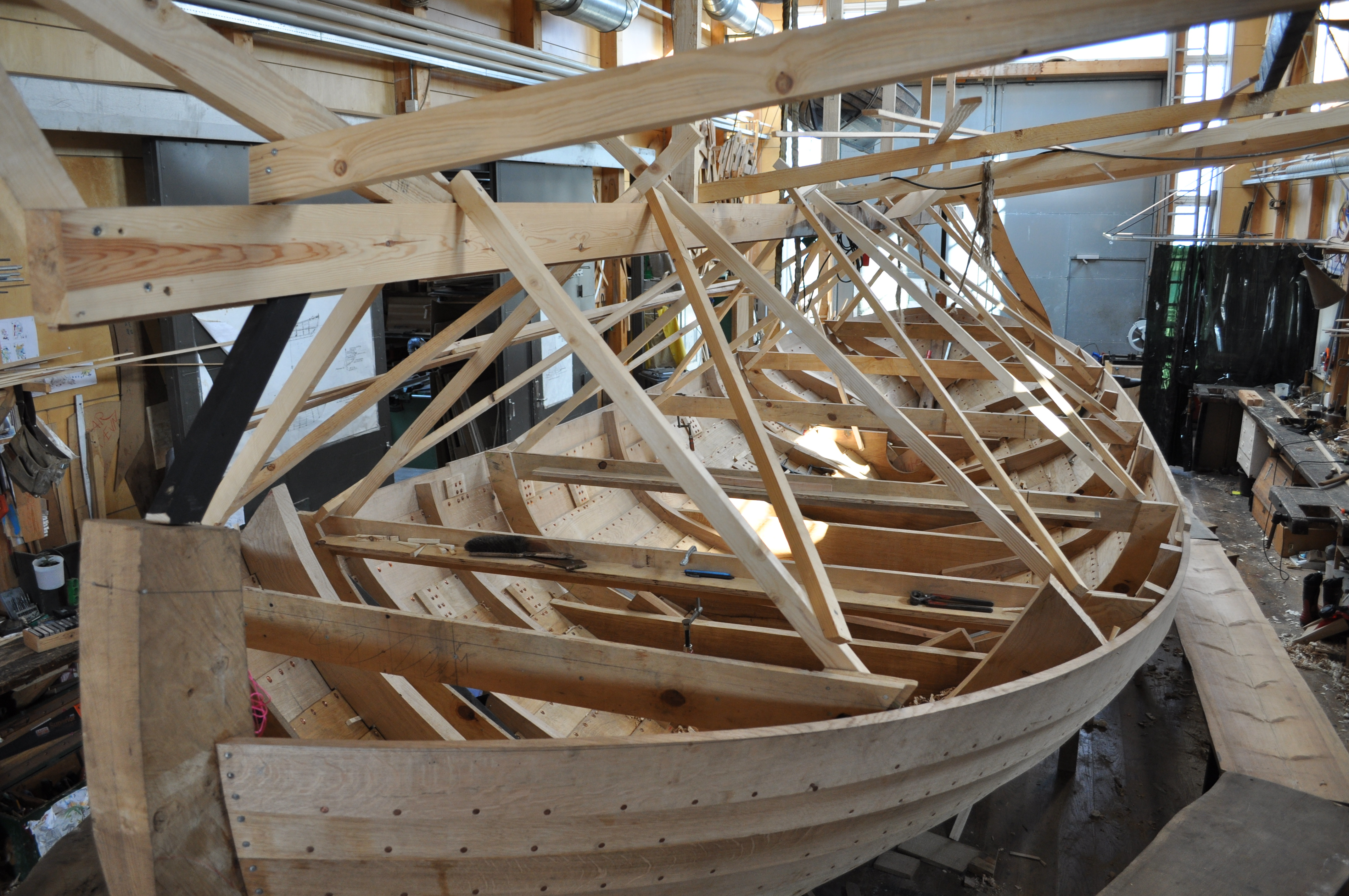 Boatbuilding on Vikingshipmuseum